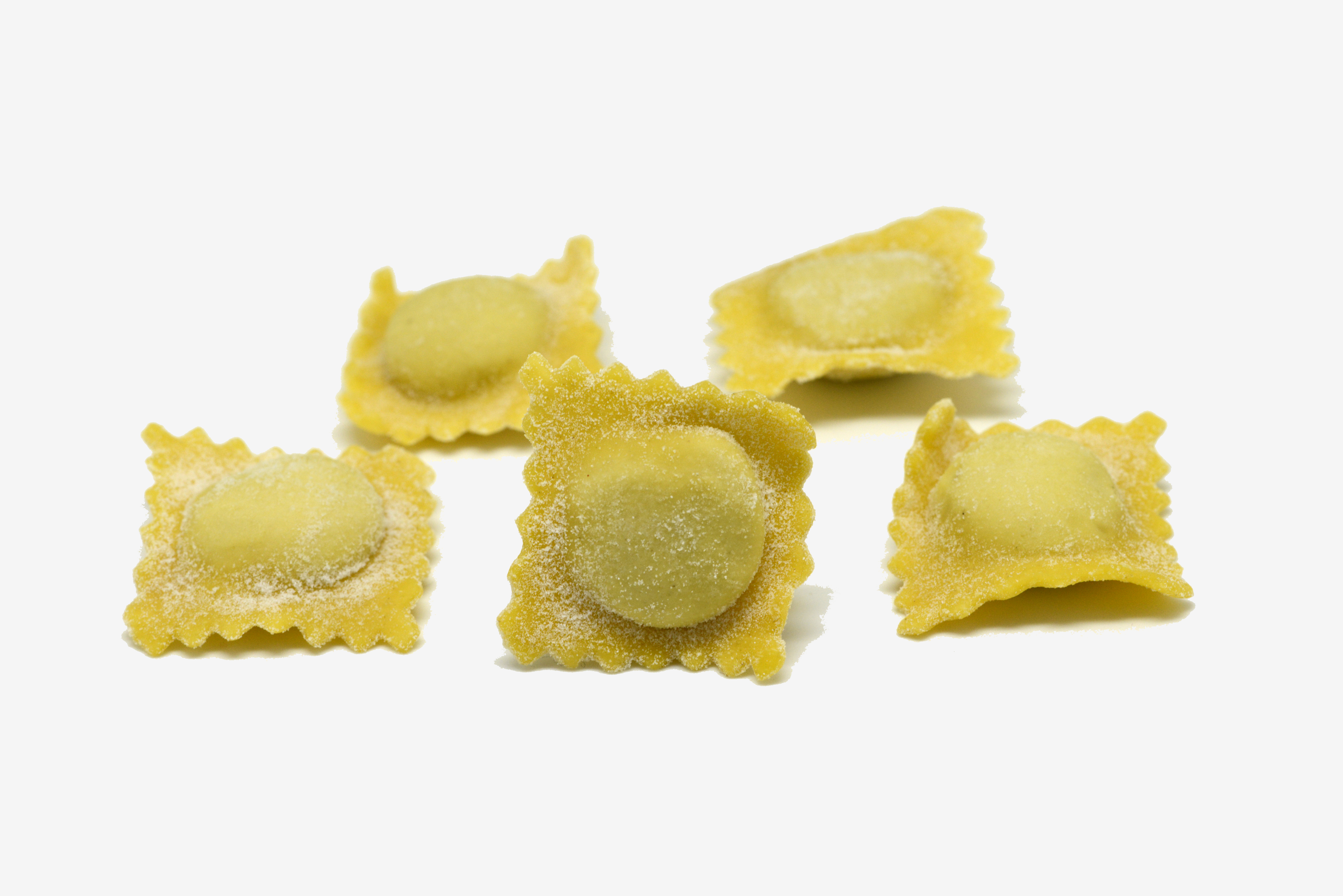 Fresh agnolotti, a type of Italian pasta